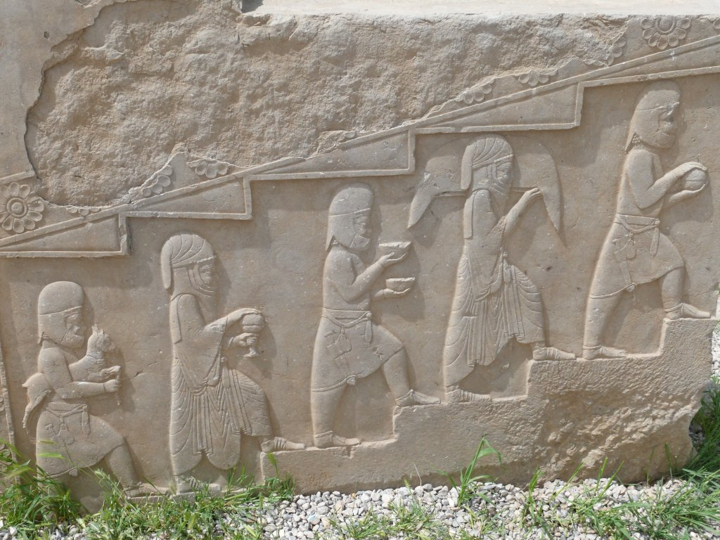 Carved relief of priests, Persepolis, Iran